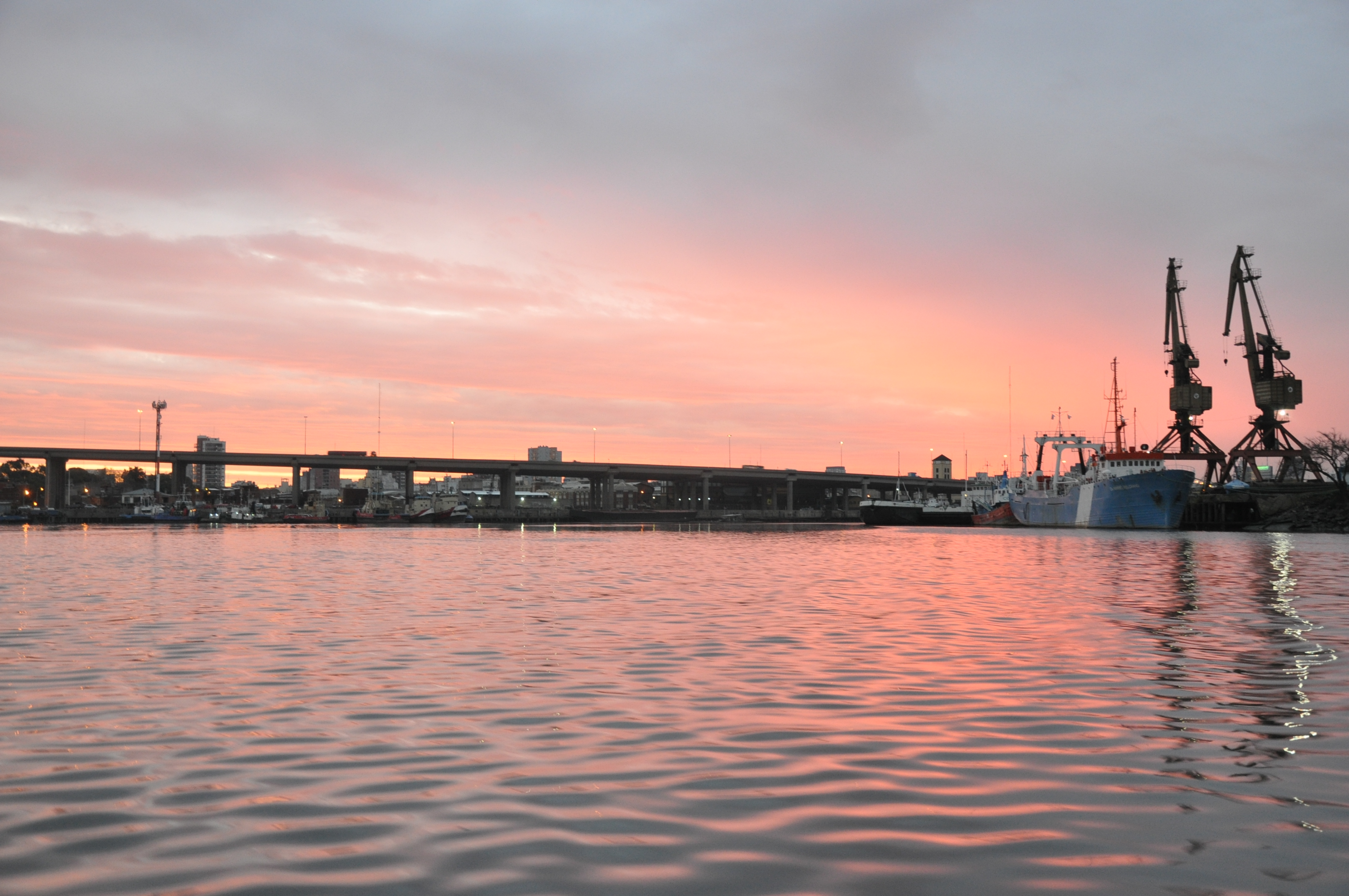 El barrio visto desde el agua.